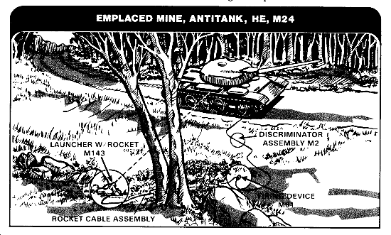 M24 antitank mine emplaced